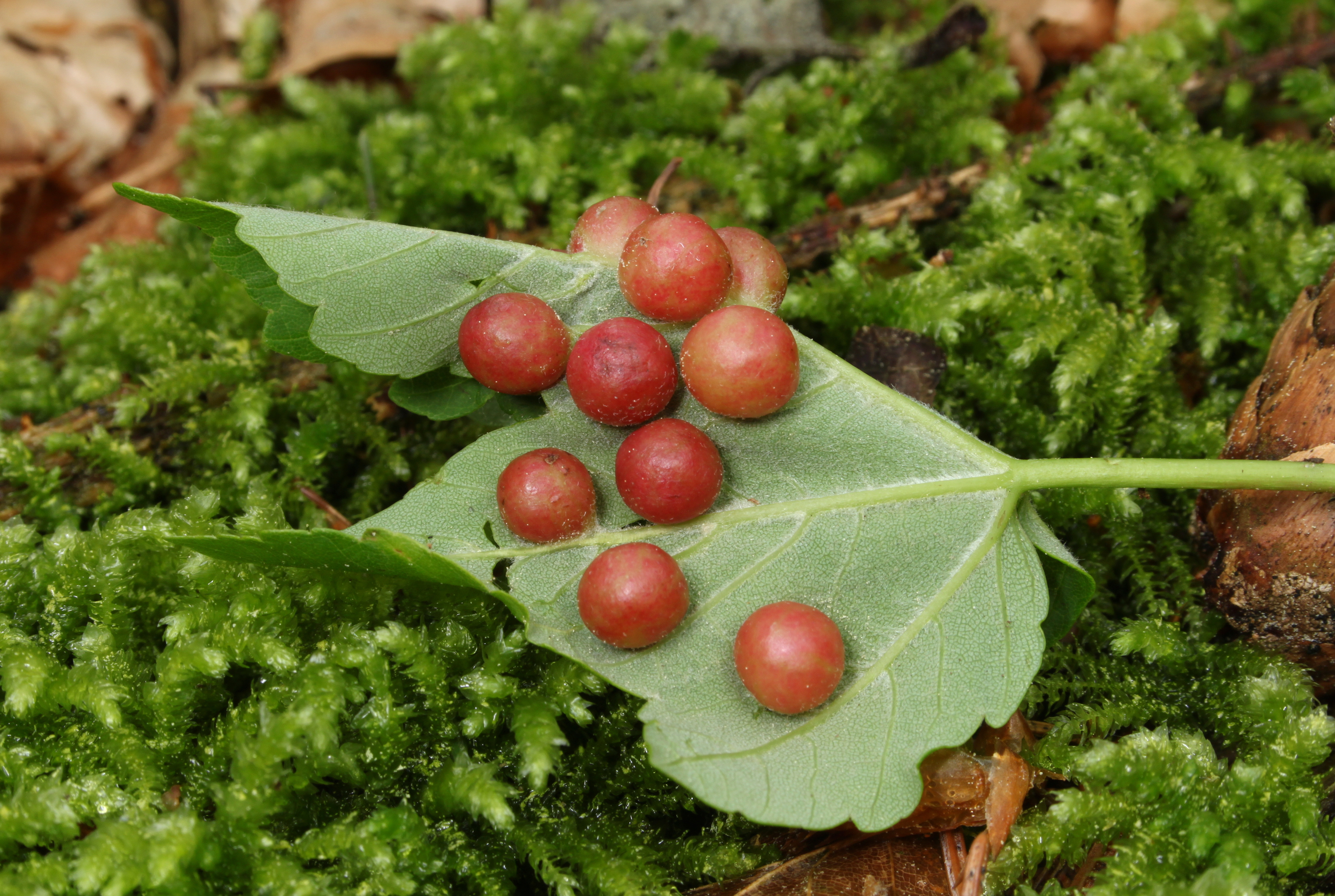 Gall of Pediaspis aceris, Location: Germany, Ulm, Eggingen